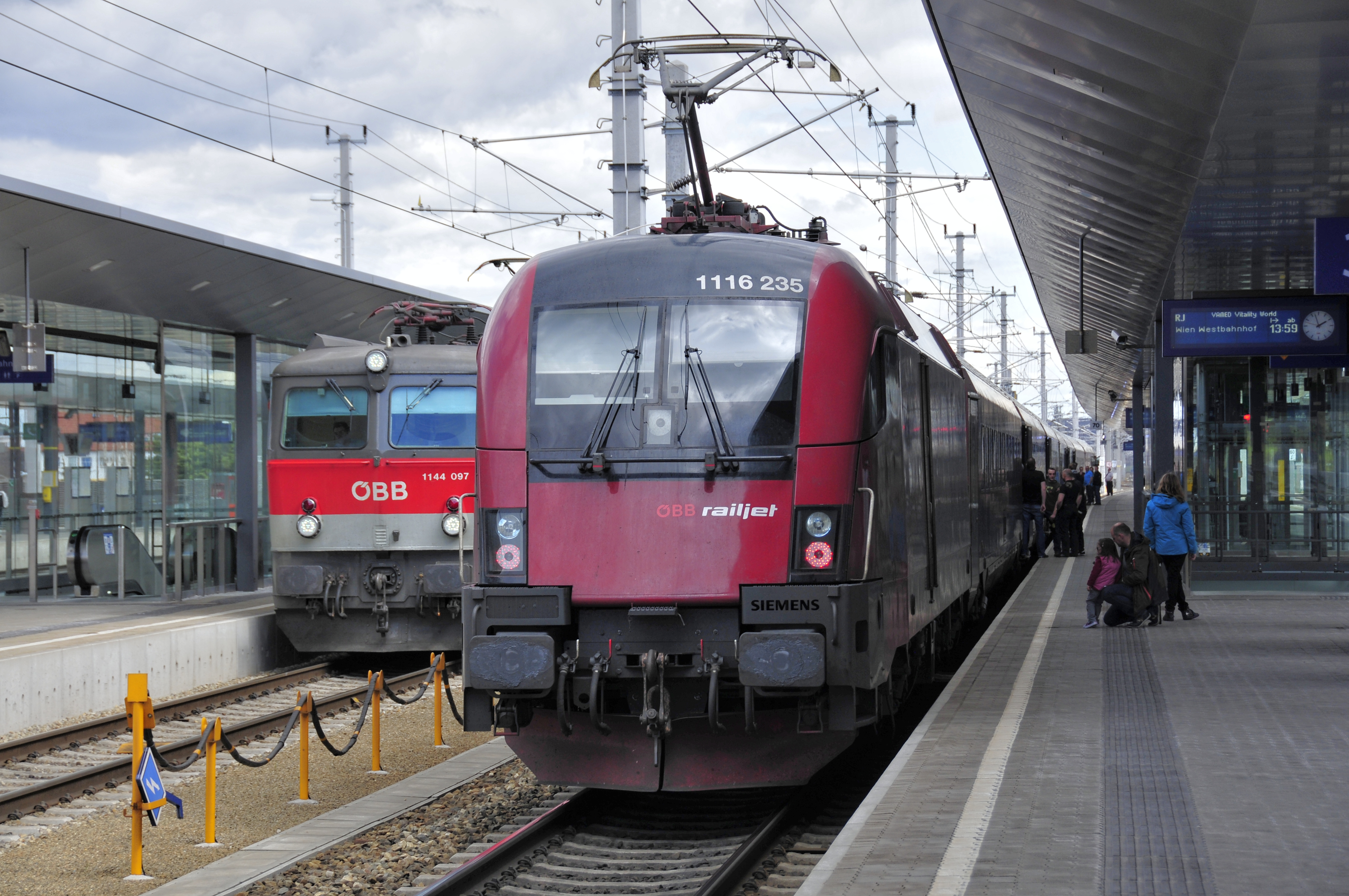 St. Pölten, Austria, Main Train Station Fotowanderung St. Pölten 13. April 2013 in St. Pölten, Niederösterreich 50mm • Allgemeines • Bahnhof • Domplatz • Fahrräder • Landhausviertel • Rathausplatz